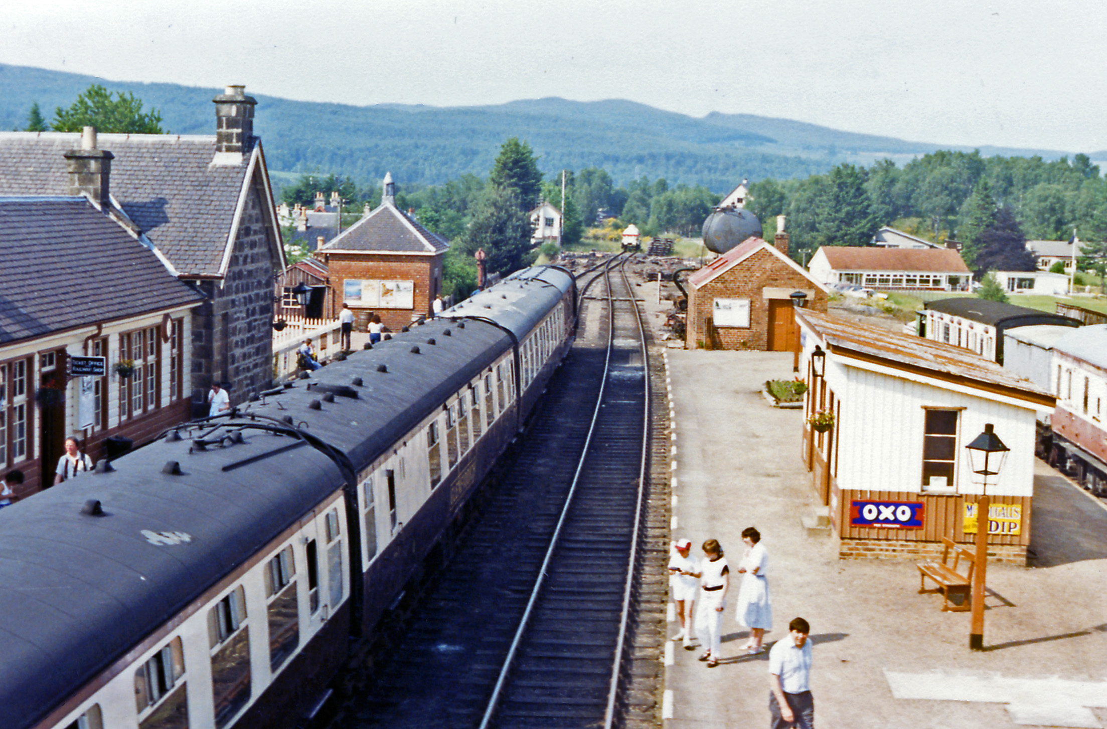 Boat of Garten station, Strathspey Railway, 1986. View northward, towards Broomhill, latterly to Forres, also Grantown and Craigellachie: Strathspey Heritage Railway - formerly Highland and Great North of Scotland Railway -- for details see NH9418 : Boat of Garten Station. On the left is a train from Aviemore; for a view the other way, see NH9418 : Boat of Garten station, Strathspey Railway, 1986.